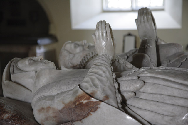 St Peters, Firle, effigy of Sir John Gage